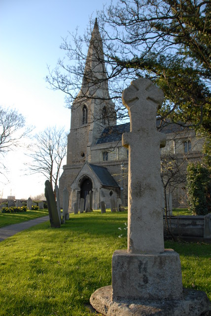 Lampass Cross in St John the Baptist and St Michael and All Angels parish churchyard, Stanground, Peterborough, England. A wheel-headed Saxon stone cross brought from elsewhere in the parish